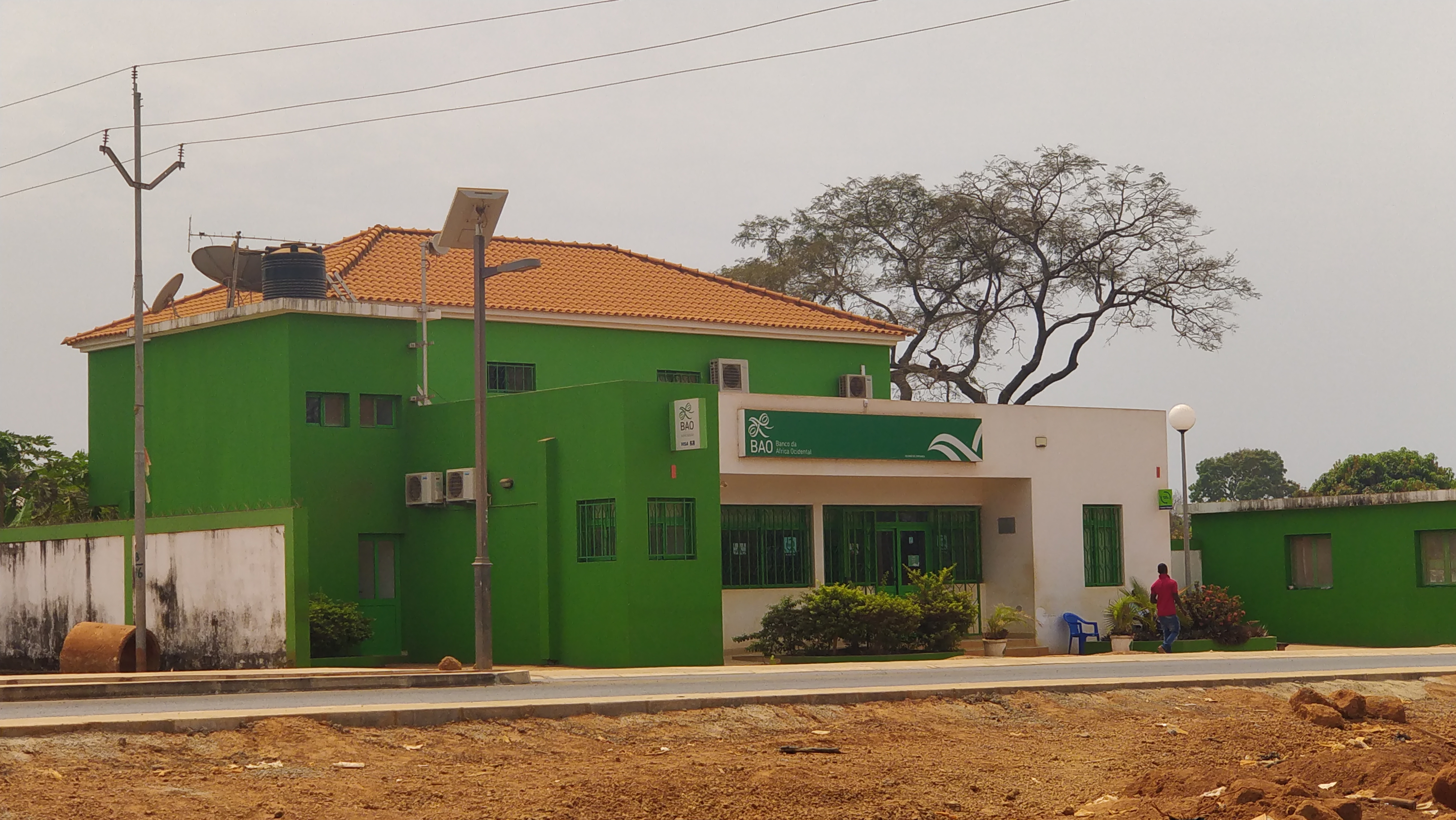 BAO branch in Buba, Guinea-Bissau